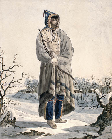 Individual of the Sautaux First Nation, standing in a winter landscape, wearing a winter cape, and holding a bow and arrows. Original caption: “ One of the rare ocasions where the signature of the artist is visible, as well as the original inscription in German. A single male Sautaux Indian standing in a winter landscape, wearing a winter cape, and holding a bow and arrows. ”